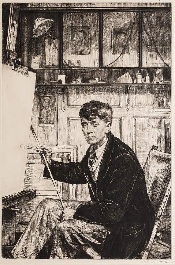 Offered for sale by Abbott and Holder in February 2020 when it was described as "‘Charles Cundall R.A. R.W.S. R.P. (1890-1971) (Schwabe 171.v) Drypoint. 1926. Signed. 17.75x11.75 inches. Framed: 27x20 inches."